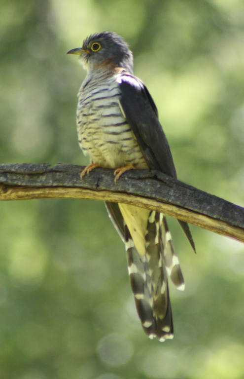 A Red-chested Cuckoo at Walter Sisulu National Botanical Garden, Johannesburg, South Africa.